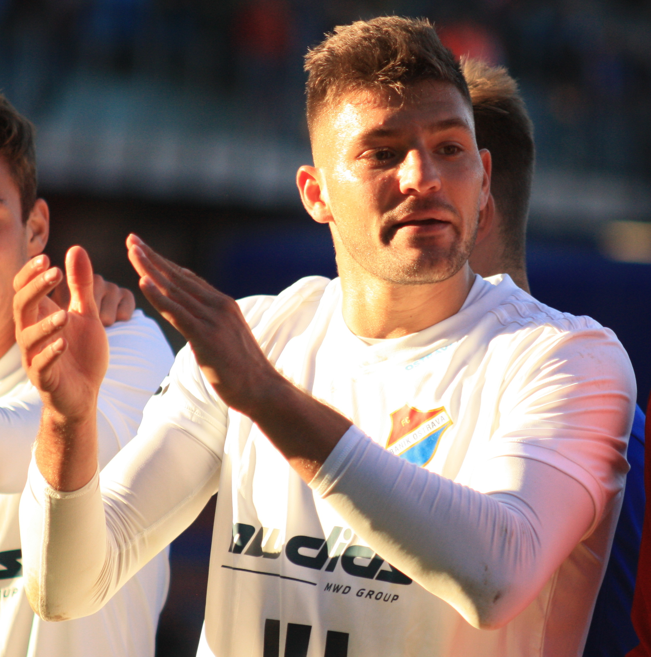 Patrizio Stronati At Czech First League (Fortuna Liga) match FC Baník Ostrava-SK Slavia Praha played on 30. 9. 2018